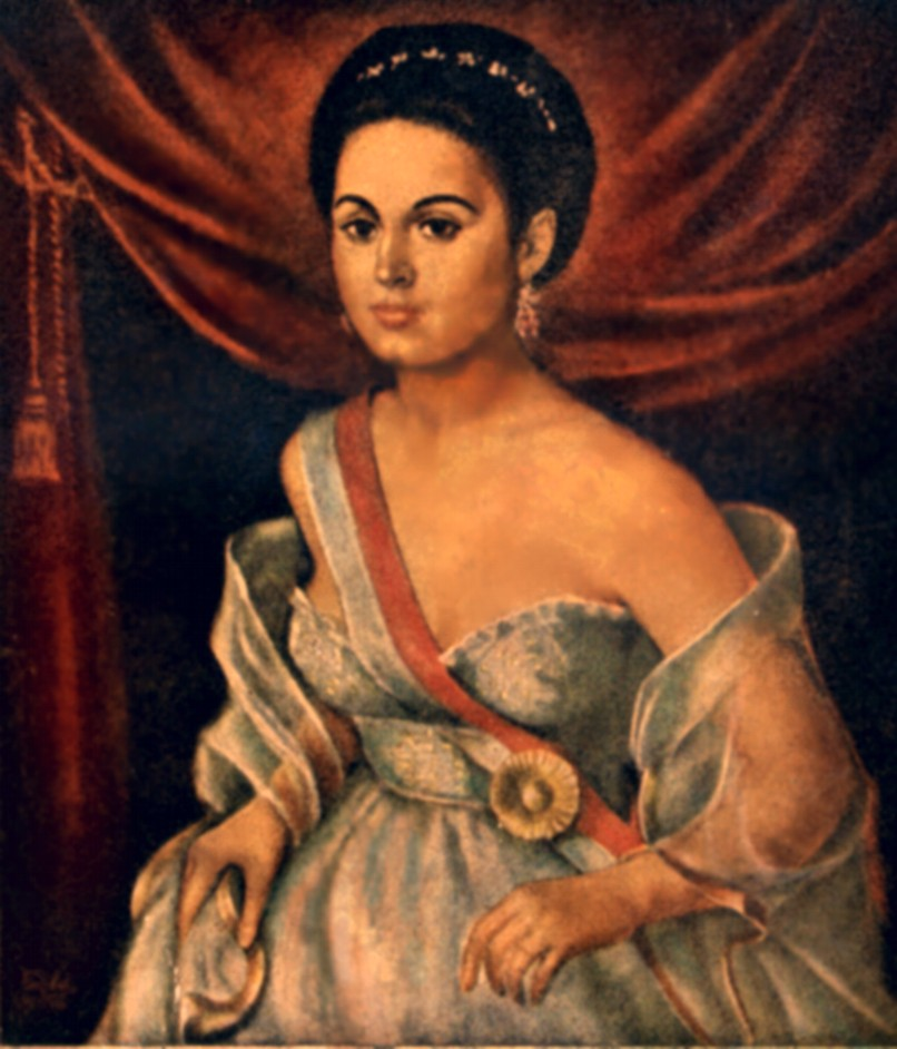 Portrait of Manuela Sáenz